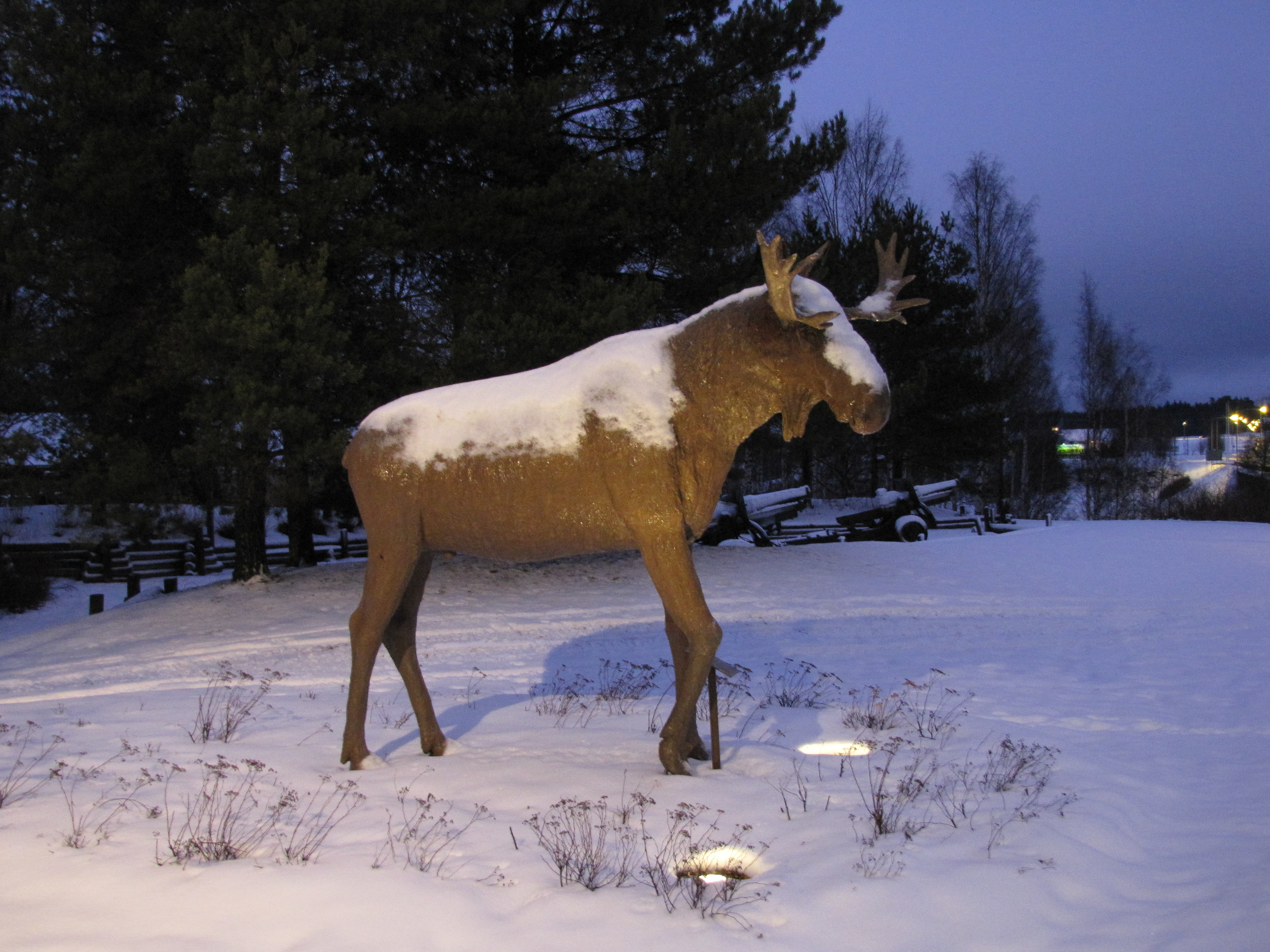 Kurikka's moose in Kurikka, Finland.